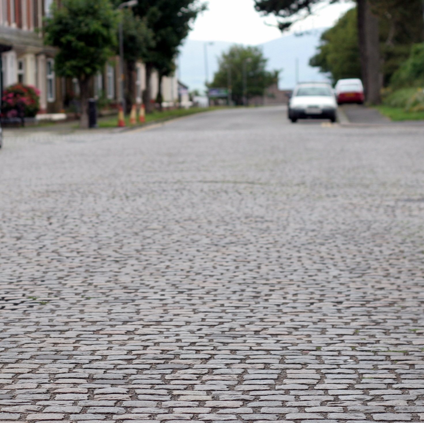 A good example of the setts which are a feature of the seaside town of Silloth-on-Solway. The photo shows the junction of Eden and Criffel Streets.